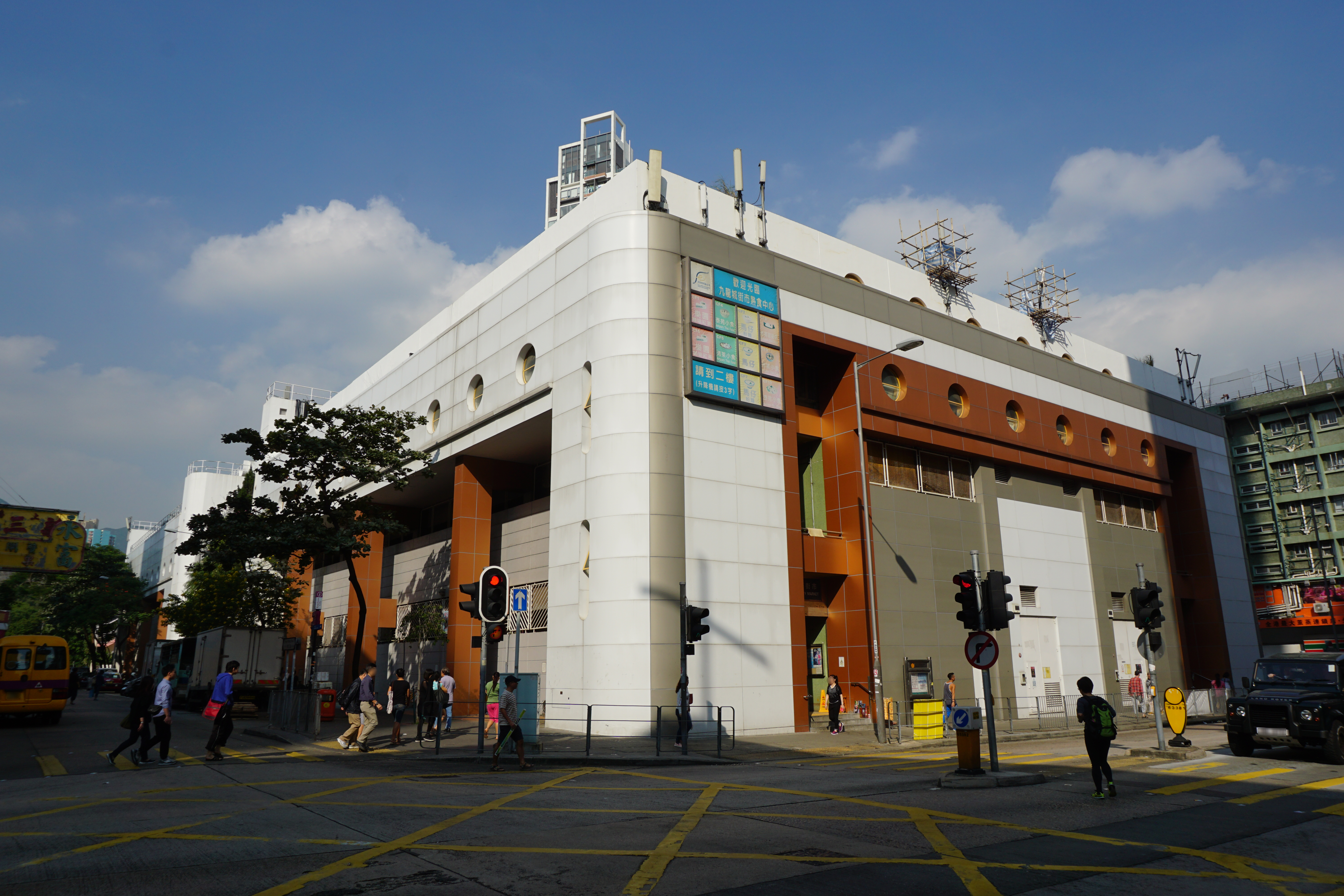 Municipal Services Building in Kowloon City, Hong Kong.